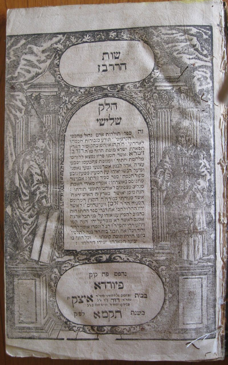 Responsa RADBAZ 3rd part, Furth 1781, 1st ed.